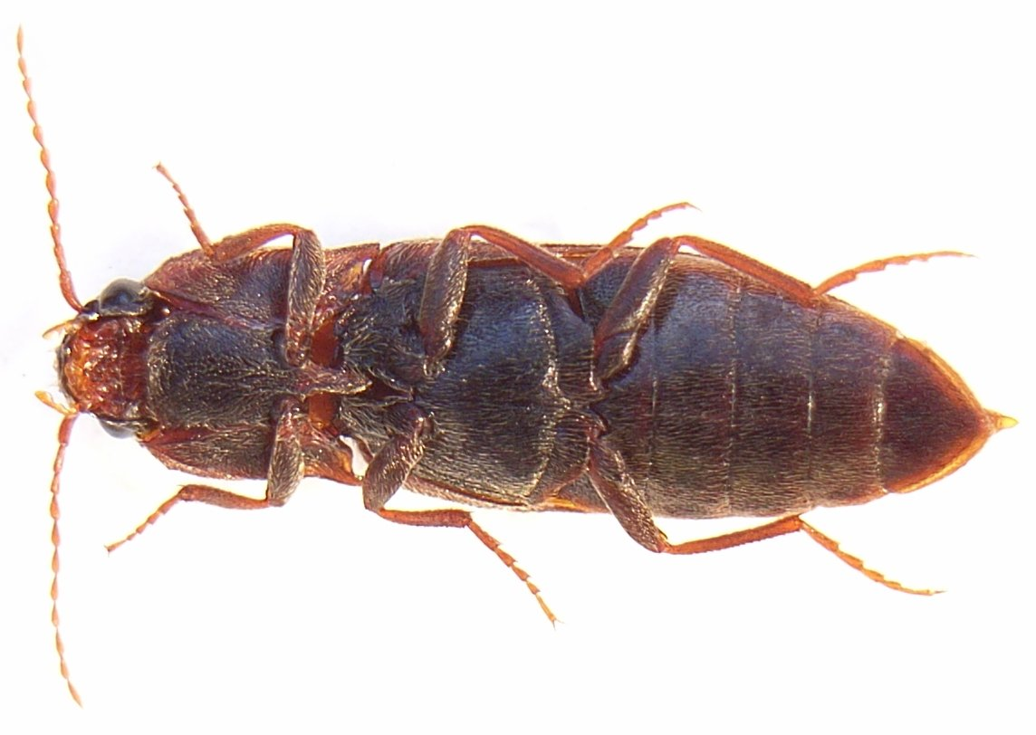 Underside of Agriotes lineatus